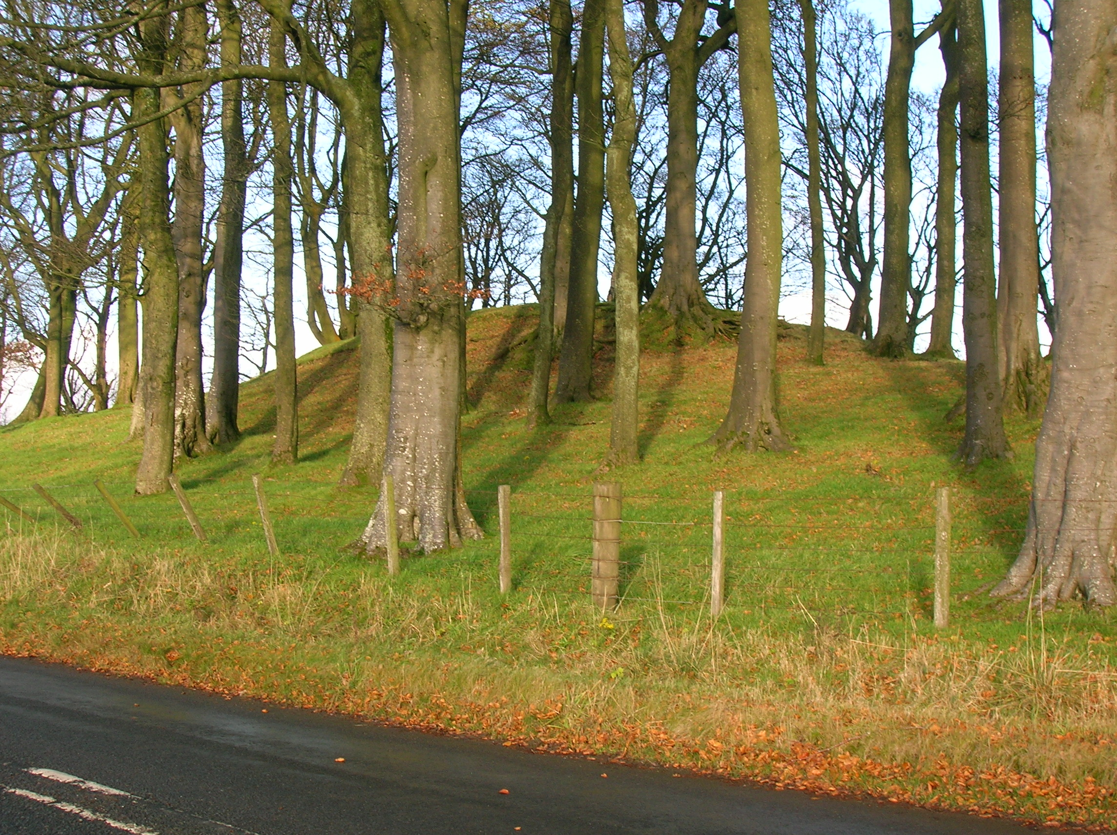 Castle Hill, Eaglesham, Scotland. Old Polnoon Moot Hill. Also Deil's Planting.